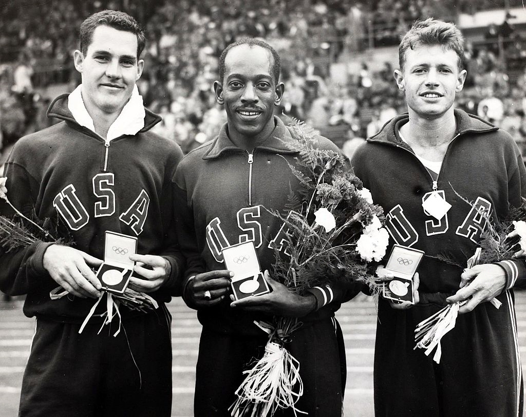 LF57 1952 Wire Photo BARNARD DILLARD DAVIS Olympic Hurdles Display Medals Pose